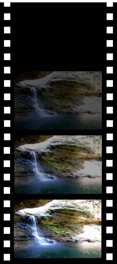 A part of a movie containing the "soft cut" called "fade in".